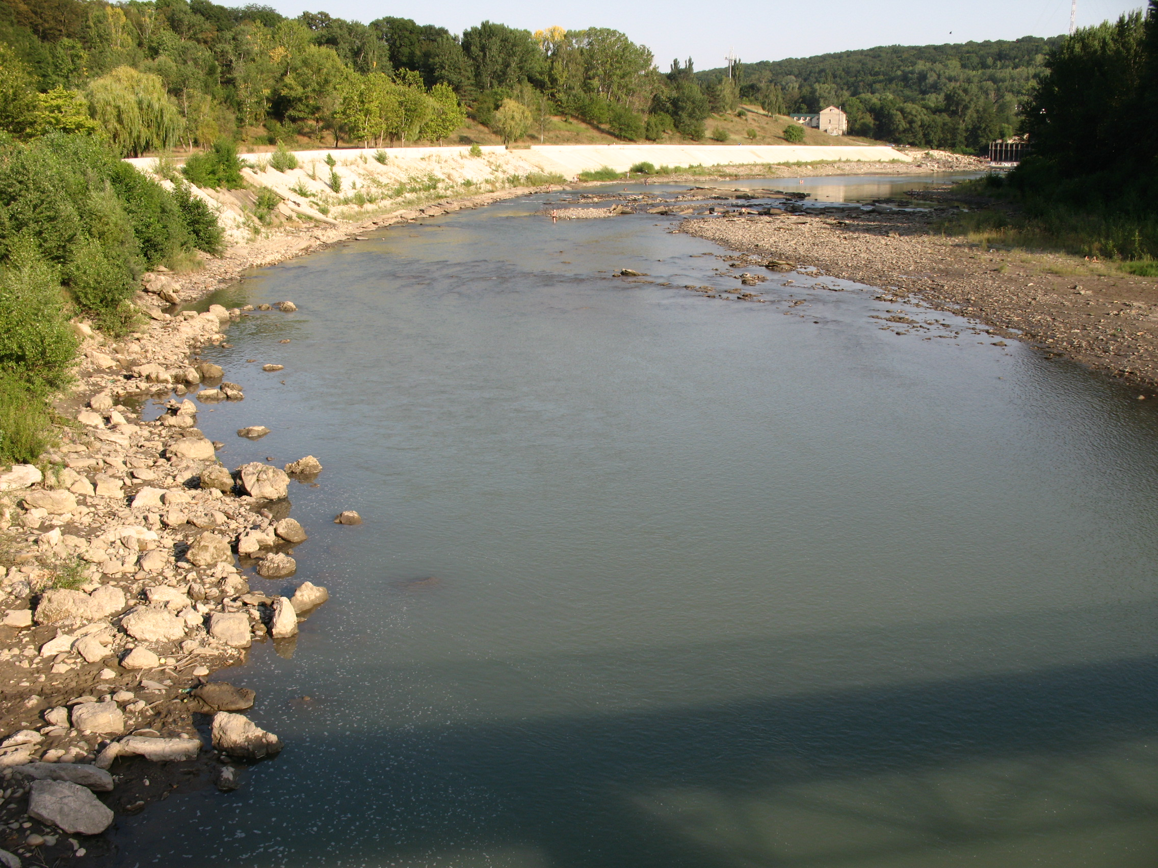 River Belaya in Maykop.